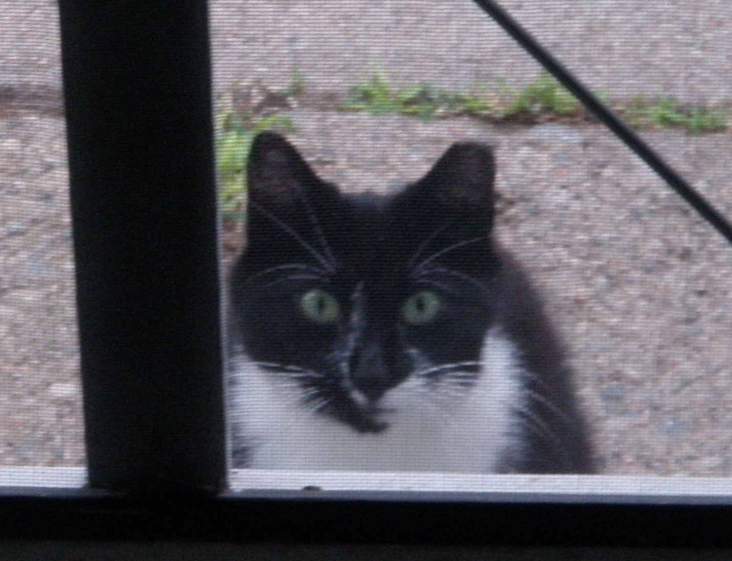 Feral cat peering in my screen door. What a sweety. You can see the ear clip from Trap Neuter Release.